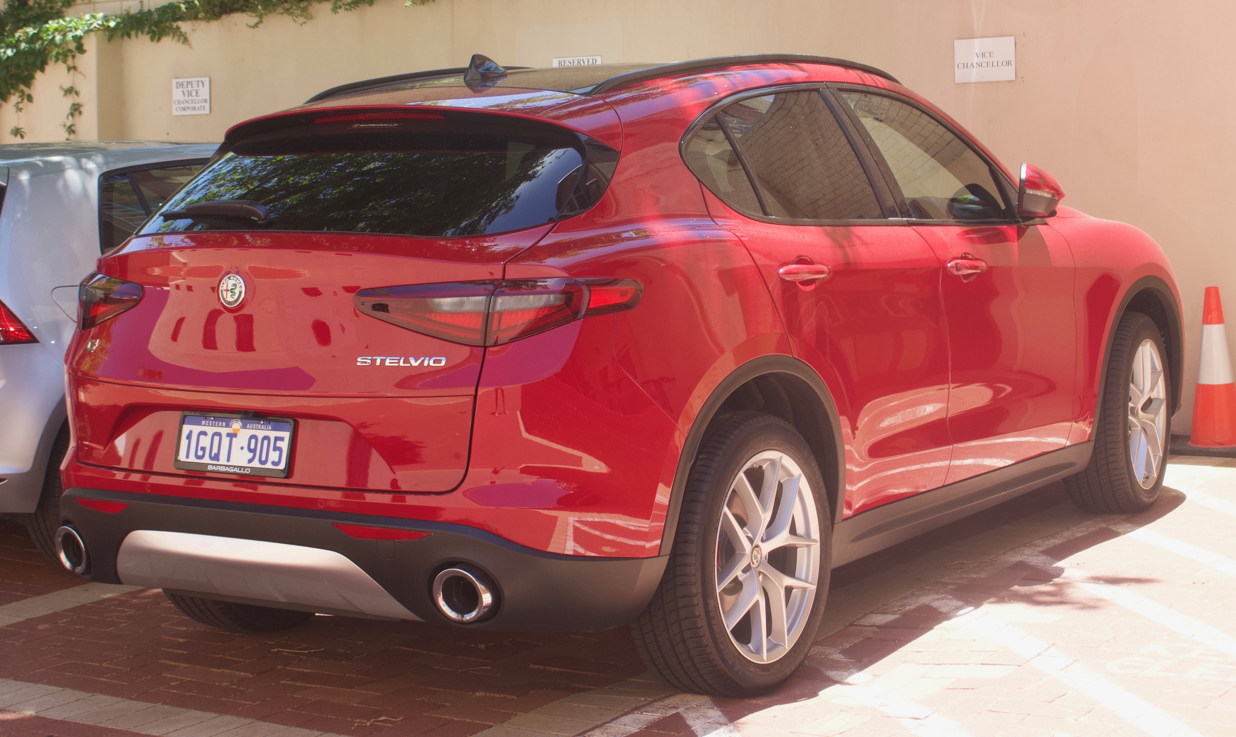 2018 Alfa Romeo Stelvio AWD wagon. Photographed in Fremantle, Western Australia, Australia.